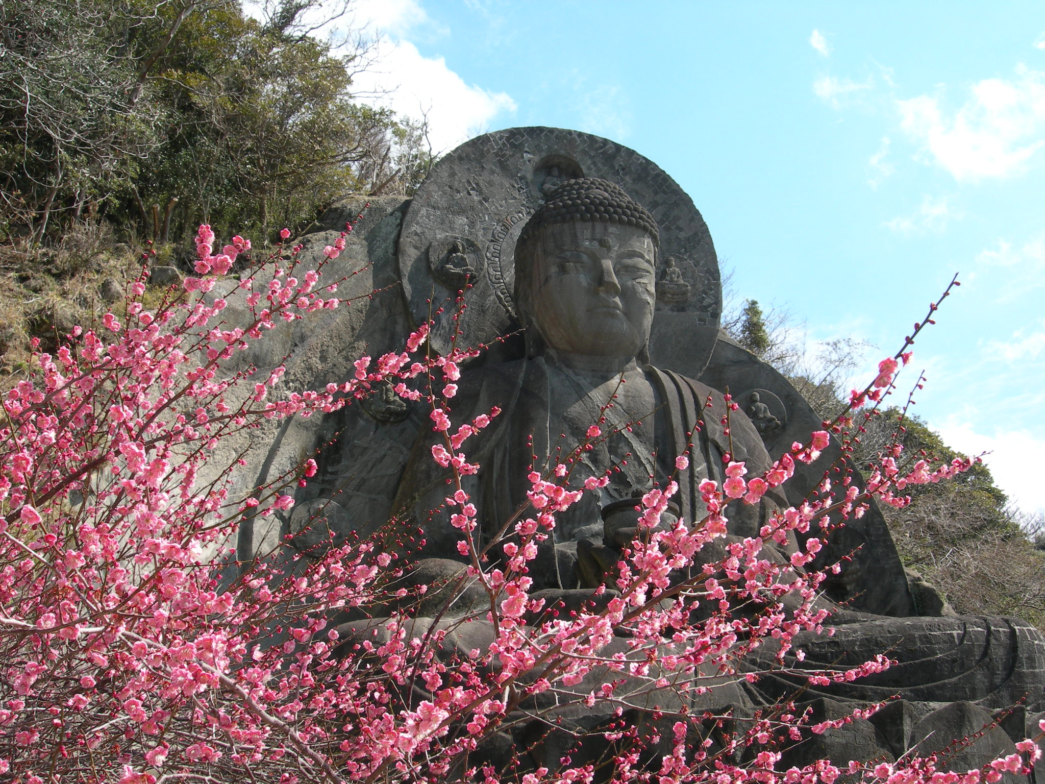 Daibutsu of when the flowers are blooming plum, Nihon-ji in Kyonan, Chiba prefecture, Japan